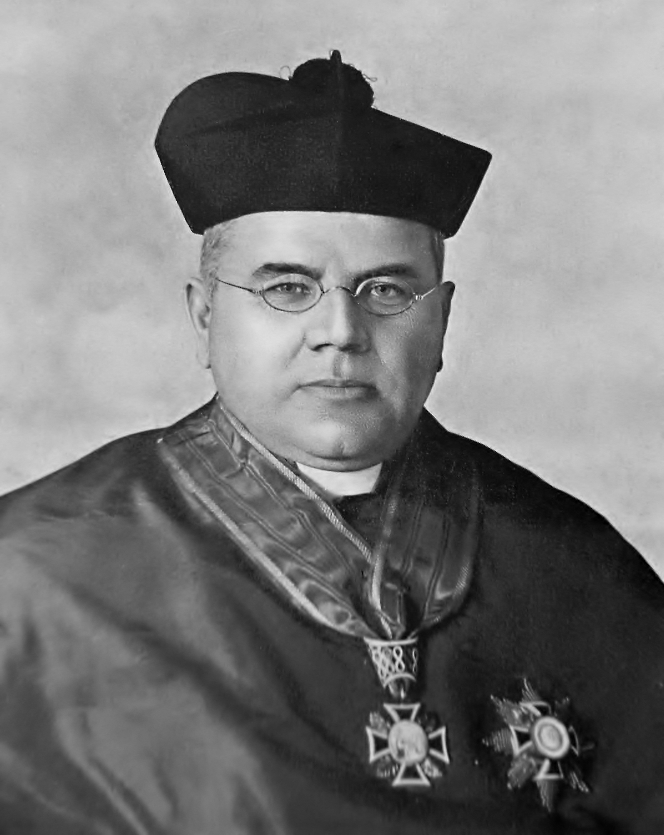 Bishop of Olomouc Antonín Cyril Stojan (Czech Republic).